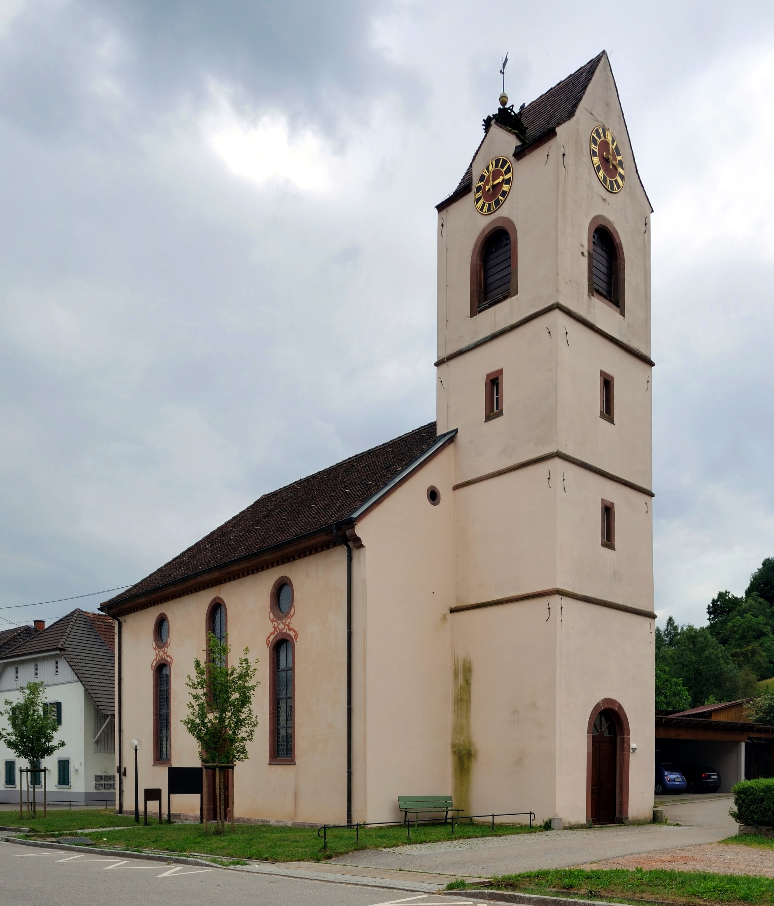 Wieslet: Protestant Church